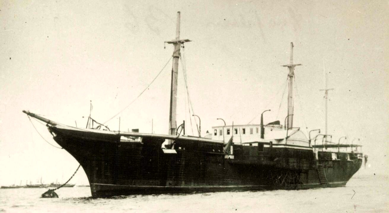 Brazilian Steamship Frigate Amazonas, c.1880.